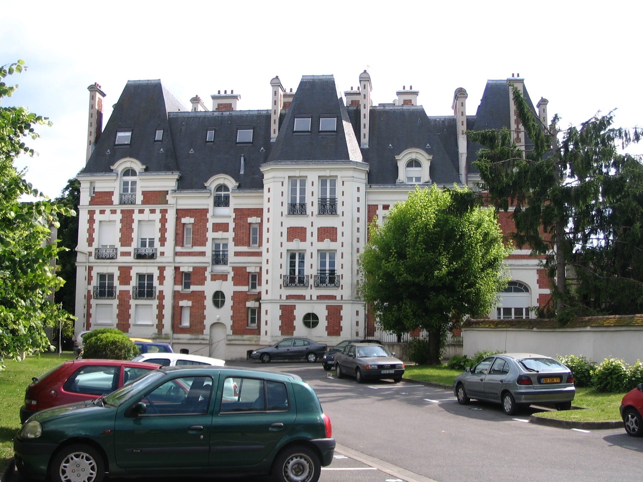 Brûlis castle, in Vulaines-sur-Seine, Seine-et-Marne, France.